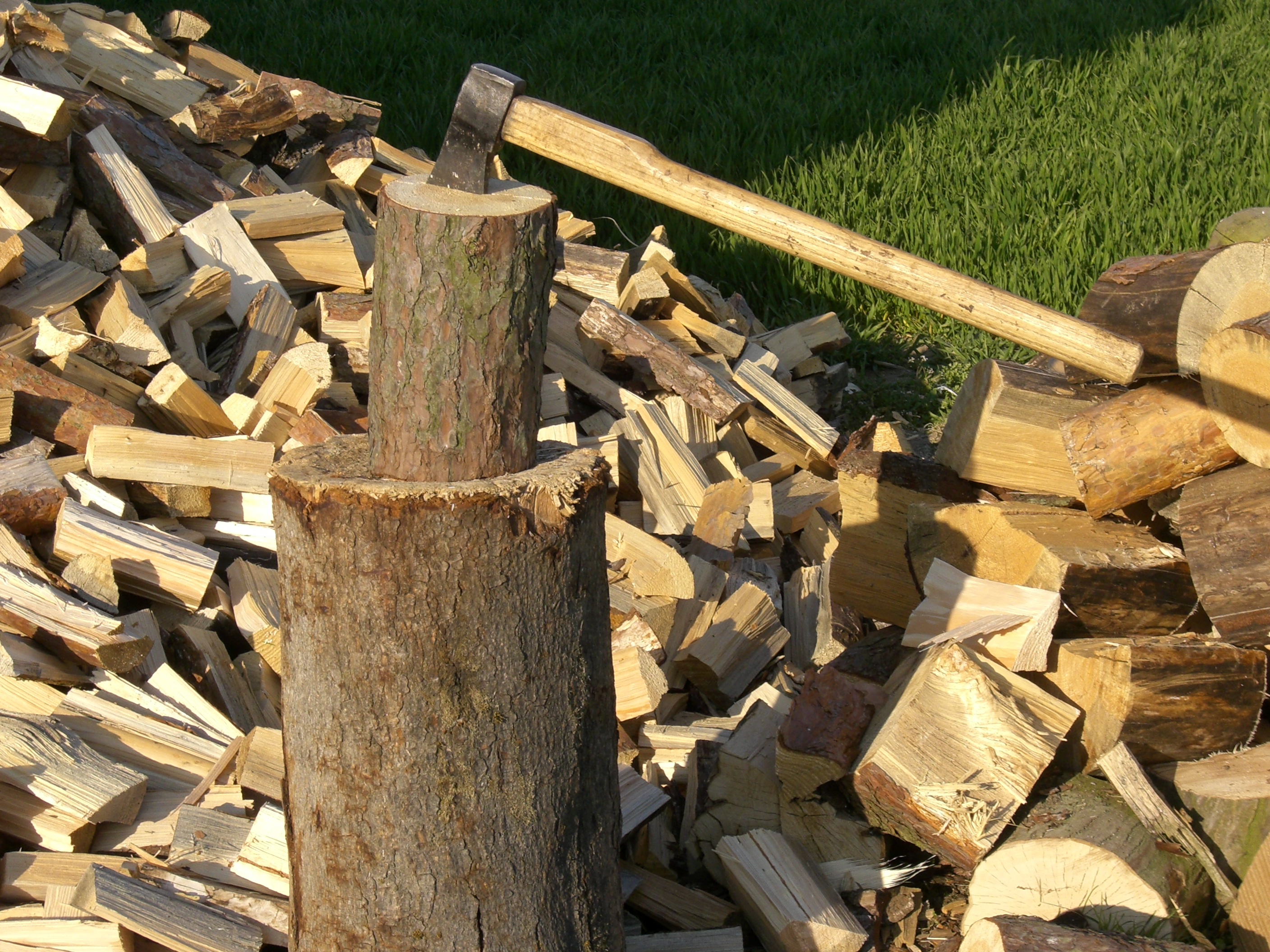 Axe with chopping stump and chopped and unchopped wood.